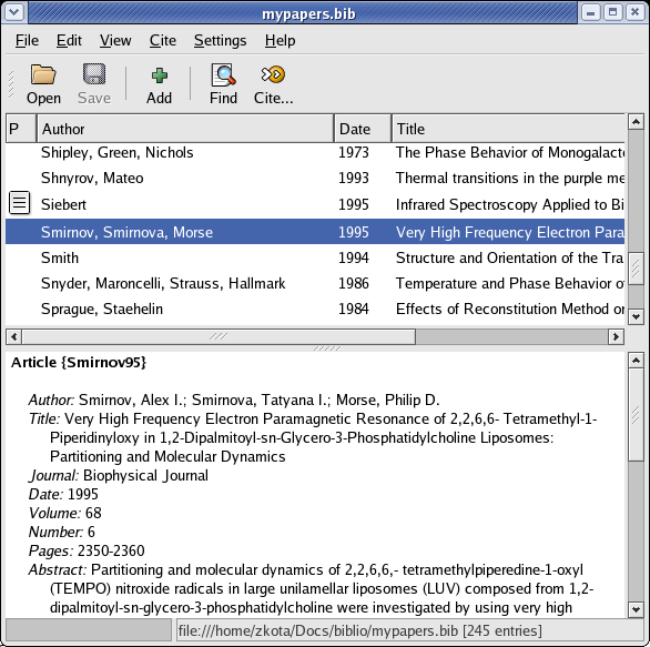 Screen shot of Pybliographer1.2